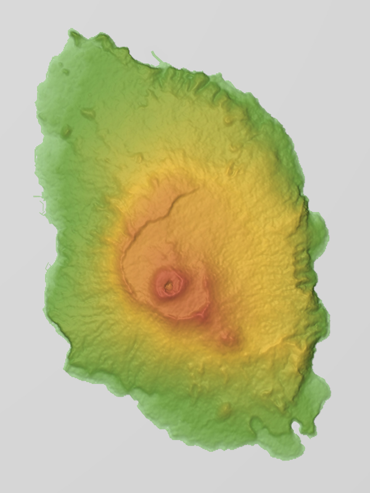 Izu Oshima in Izu Islands, Tokyo, Japan.